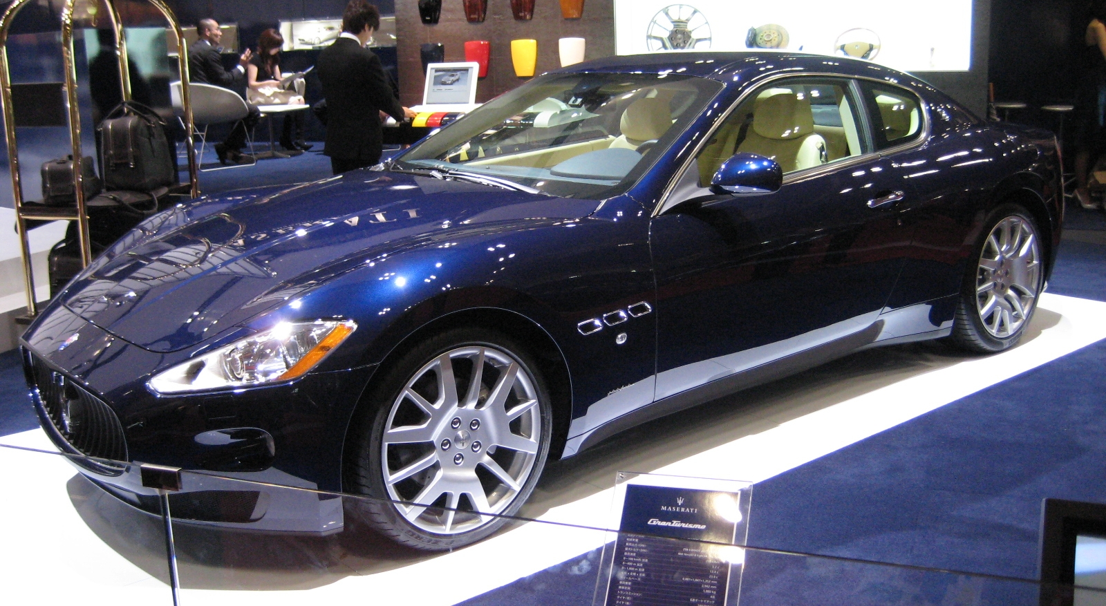 Maserati GranTurismo in Tokyo Motor Show 2007